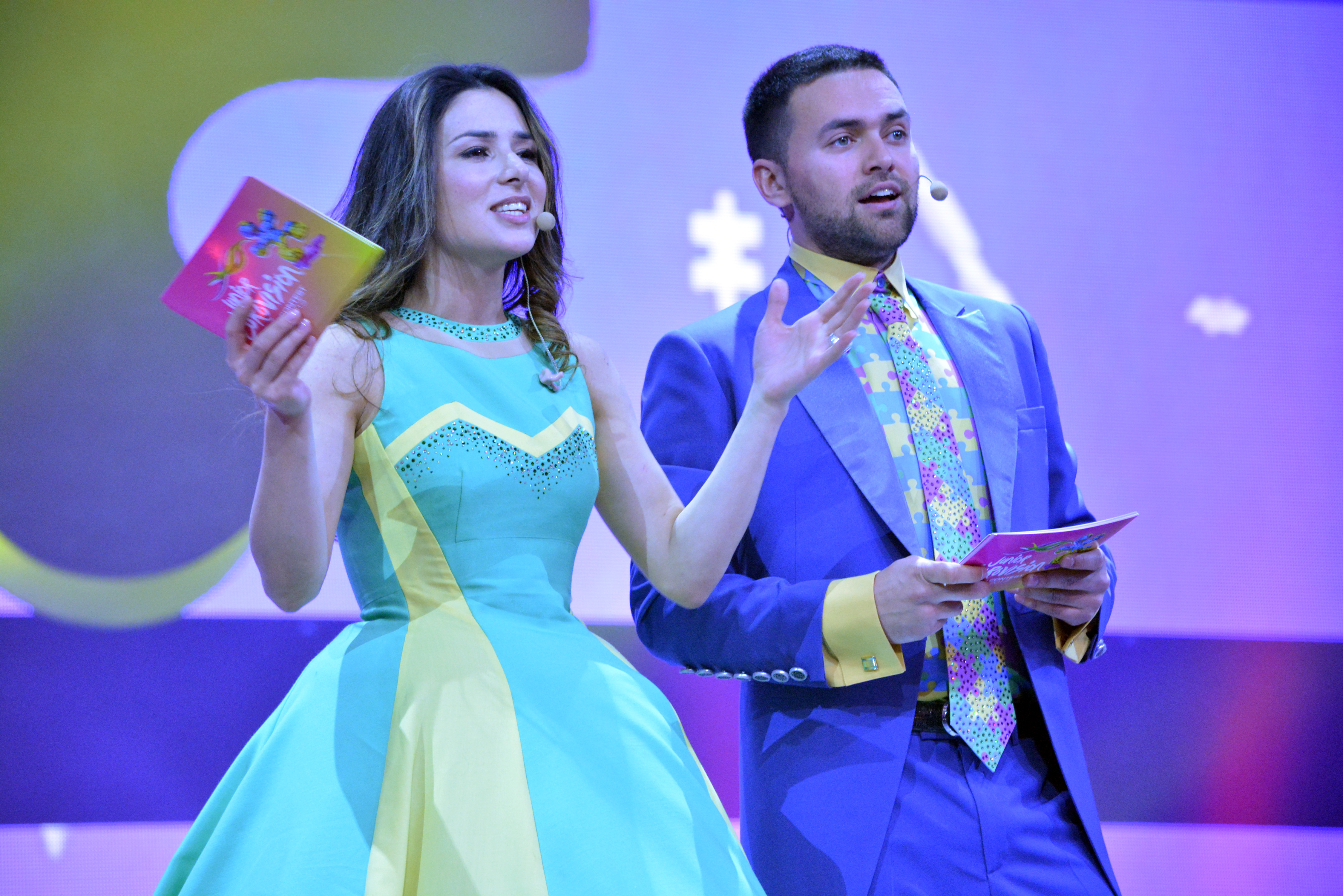 Zlata Ognevich and Timur Miroshnychenko at JESC 2013 2nd general rehearsal